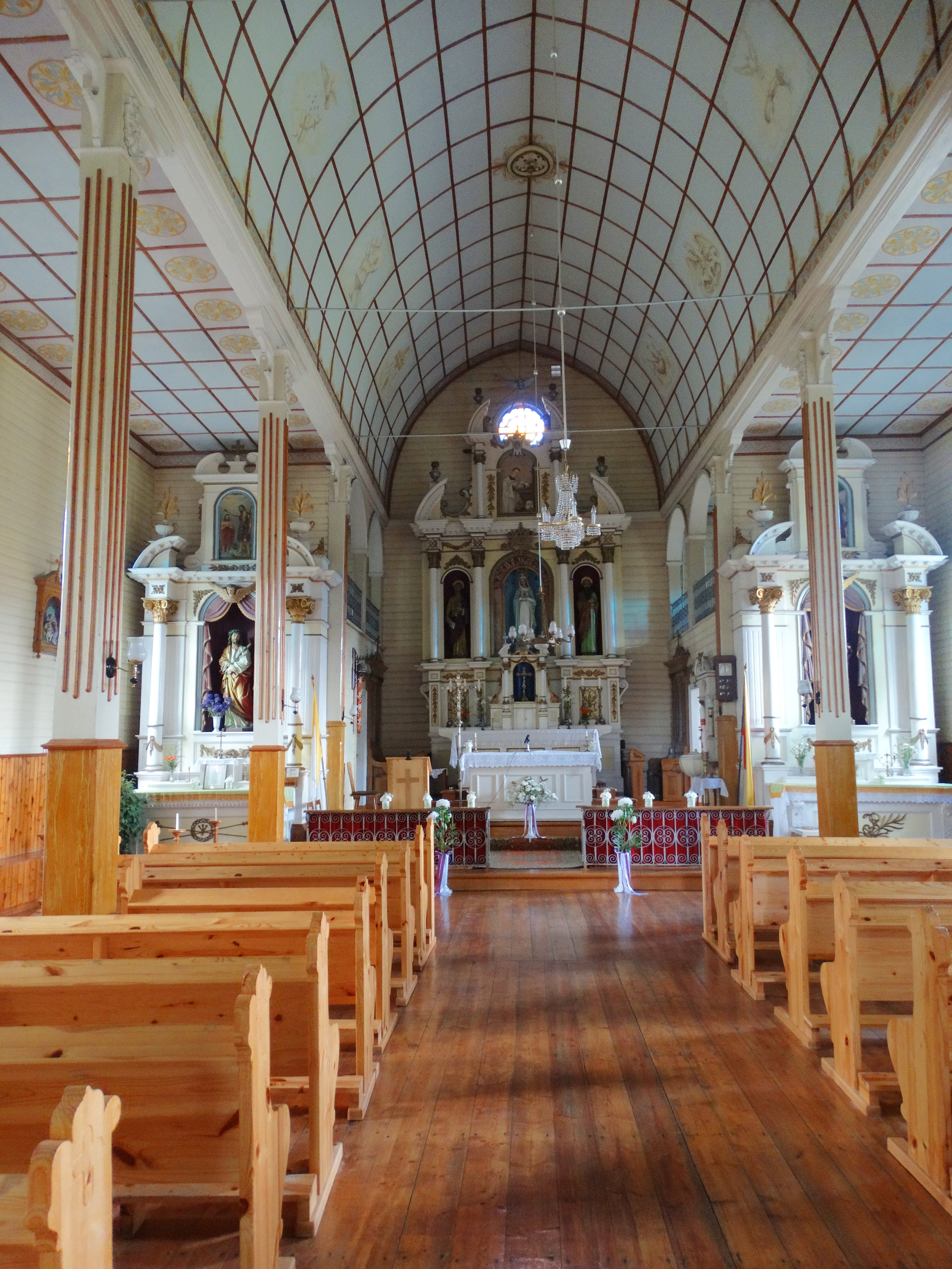 Church in Paįstrys, Panevėžys District, Lithuania